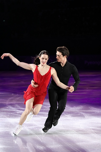 Gala exhibition at the 2018 Winter Olympics